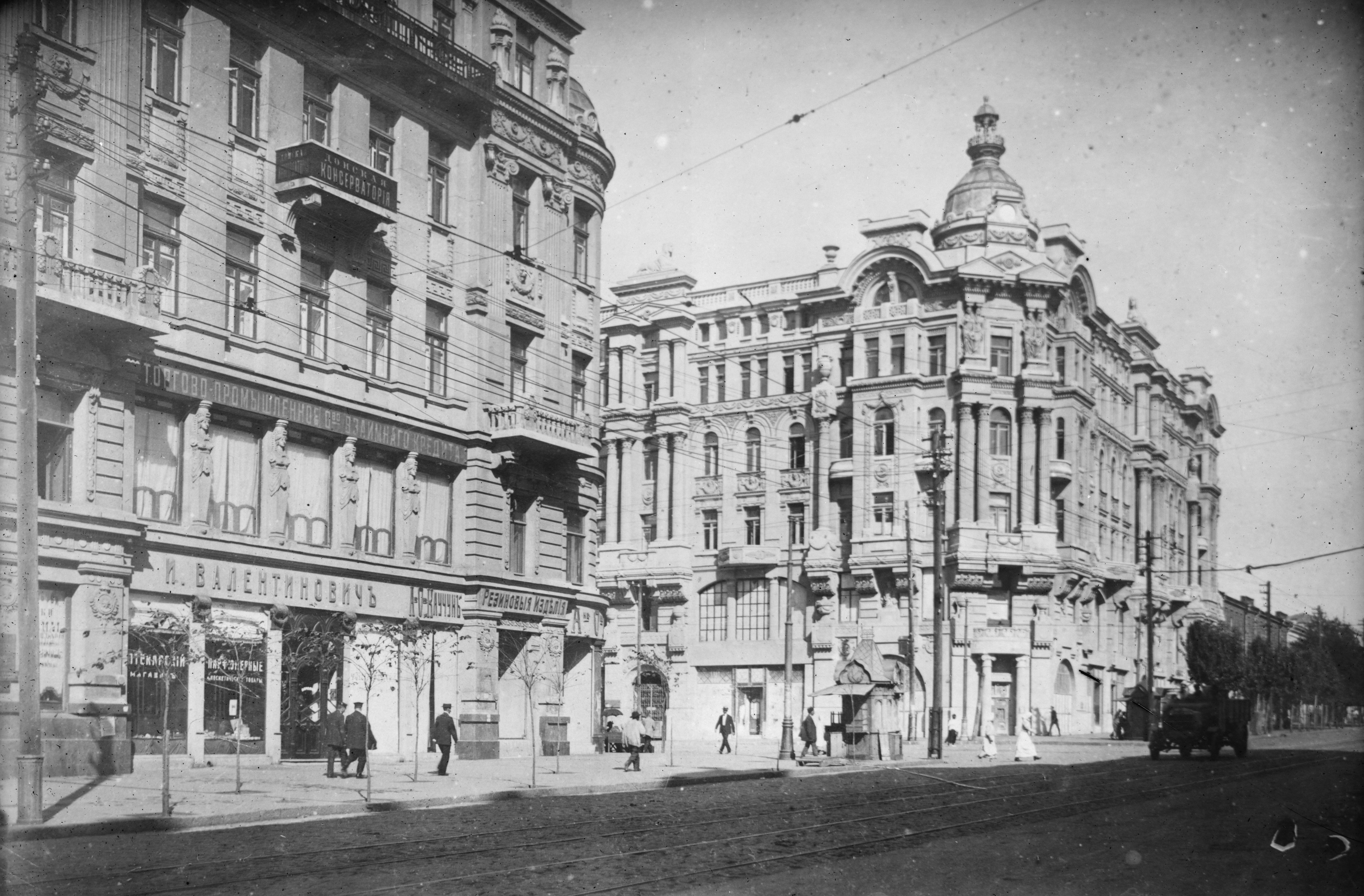 Bolshaya Sadovaya street (No. 69 and 71) in Rostov-on-Don.